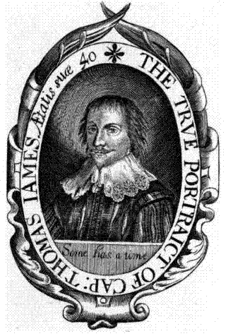 Thomas James